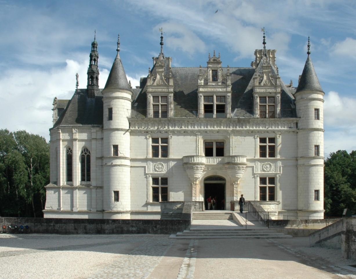 Northern aspect of the Logis of the château de Chenonceau